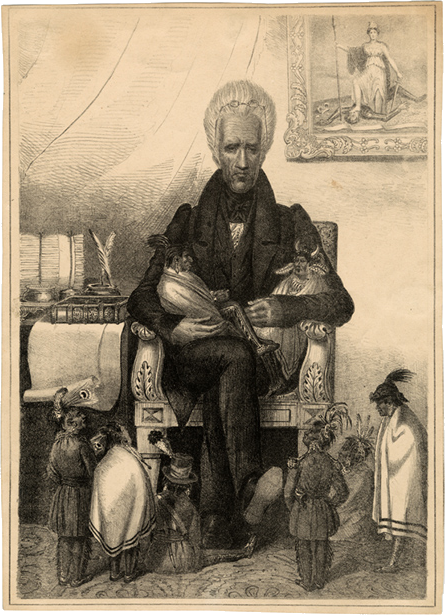 An engraving from the 1830s depicting Andrew Jackson as the Great Father. Jackson vigorously pursued the policy of removal that forced eastern Indian nations to move west of the Mississippi in the 1830s. Opponents of removal mocked Jackson's professed compassion for Native Americans by depicting him as a paternal figure comforting Indian "children."